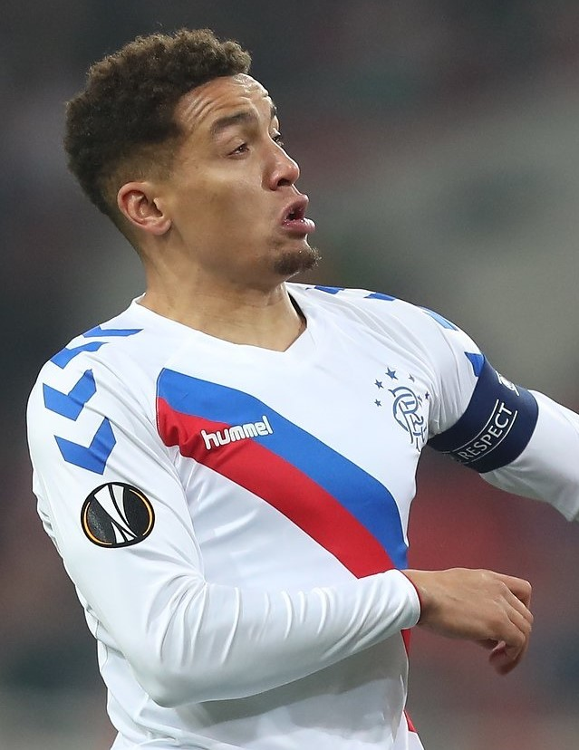 James Tavernier